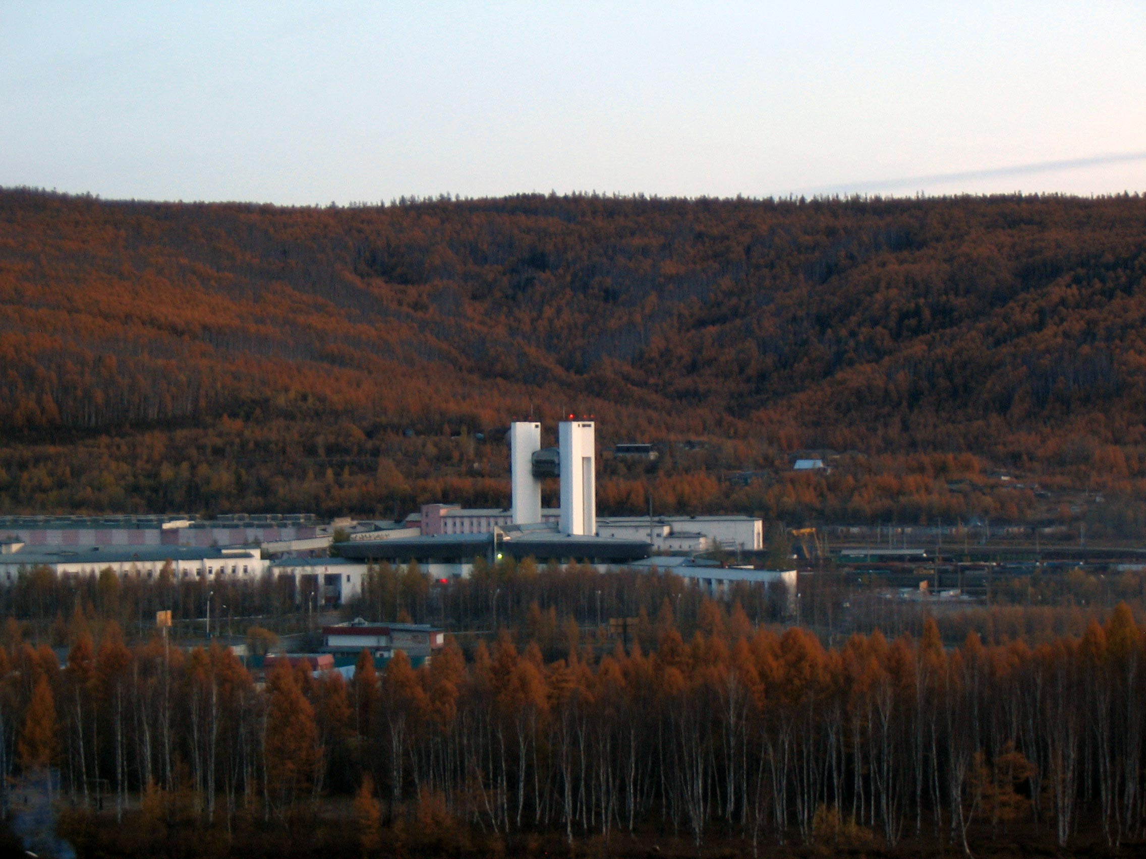 Terminal Tynda railroad station from left left-bank